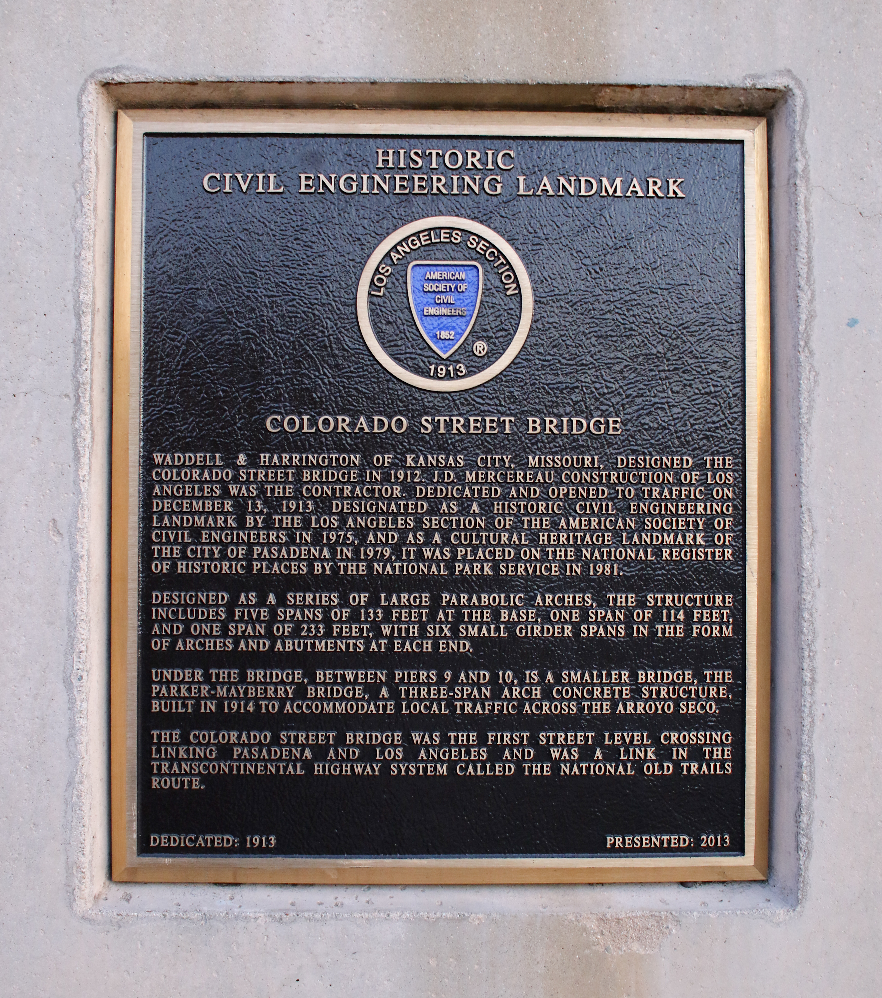 Plaque dedicating the Colorado Street Bridge in Pasadena, California as a Historic Civil Engineering Landmark by the American Society of Civil Engineers, Los Angeles Section.